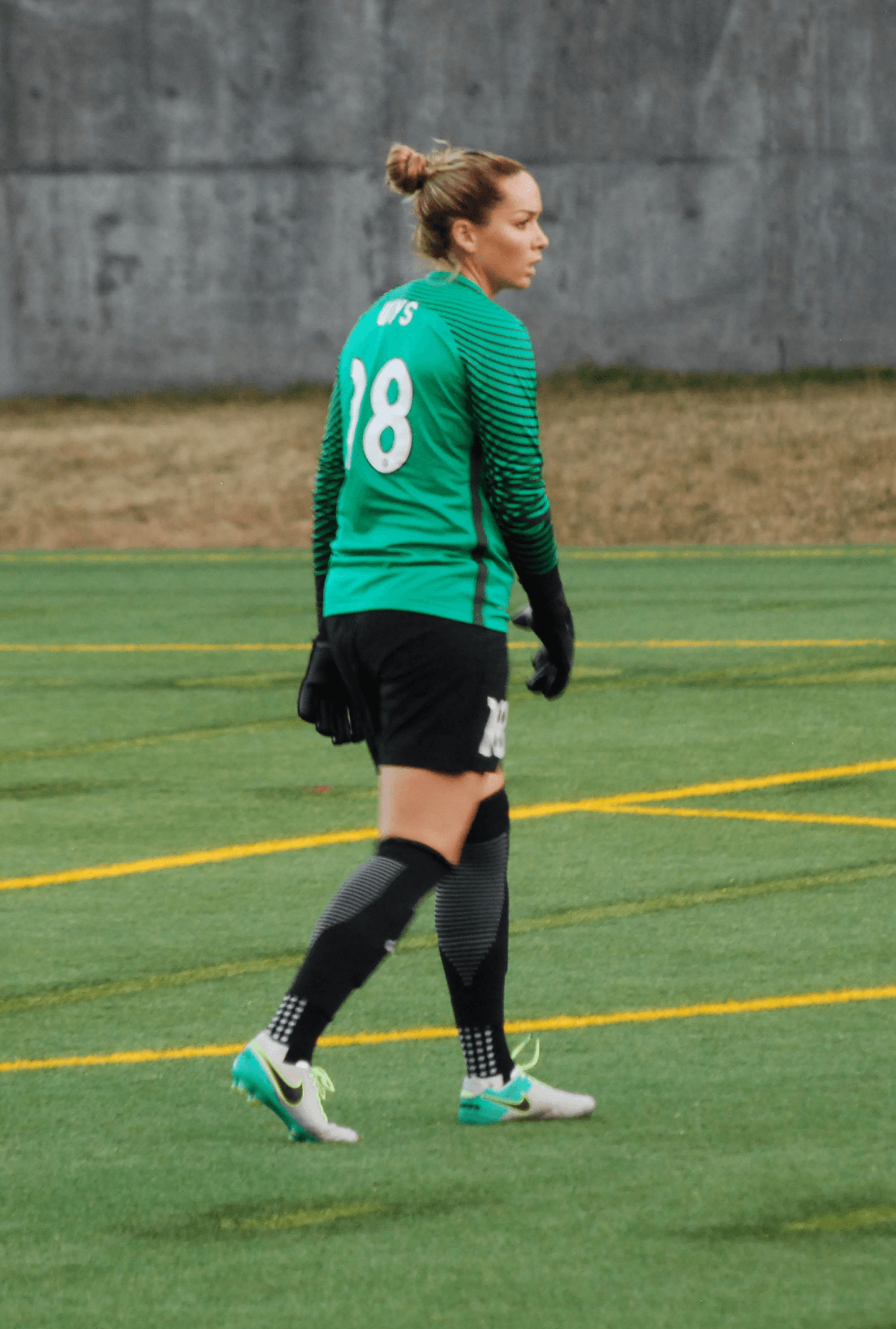 Kelsey Wys, Seattle Reign FC vs Washington Spirit, September 11, 2016 at Memorial Stadium